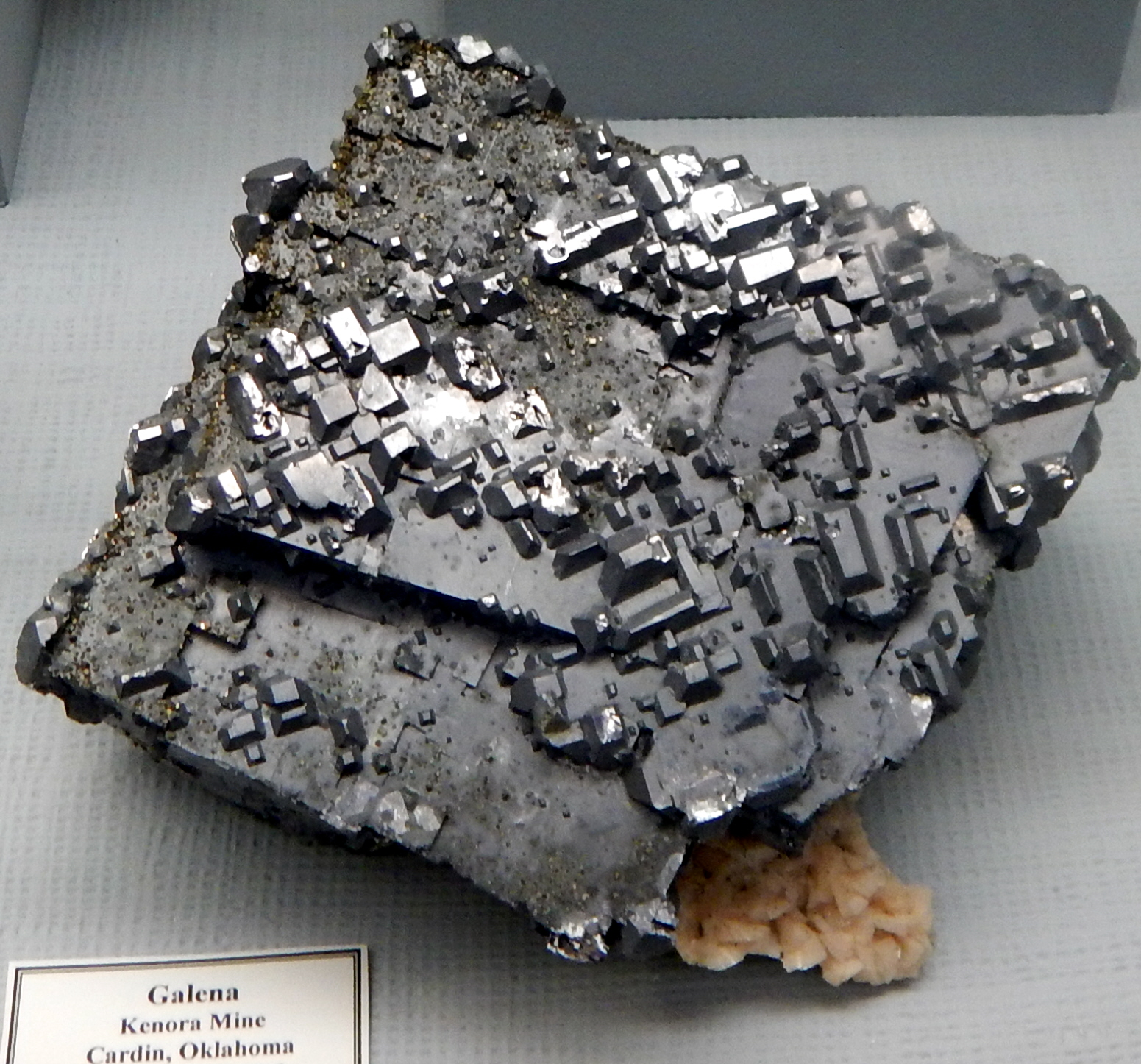 Galena specimen, old Kenora mine, Cardin, OK. AE Seaman Mineral Museum, Michigan Technological University, Houghton